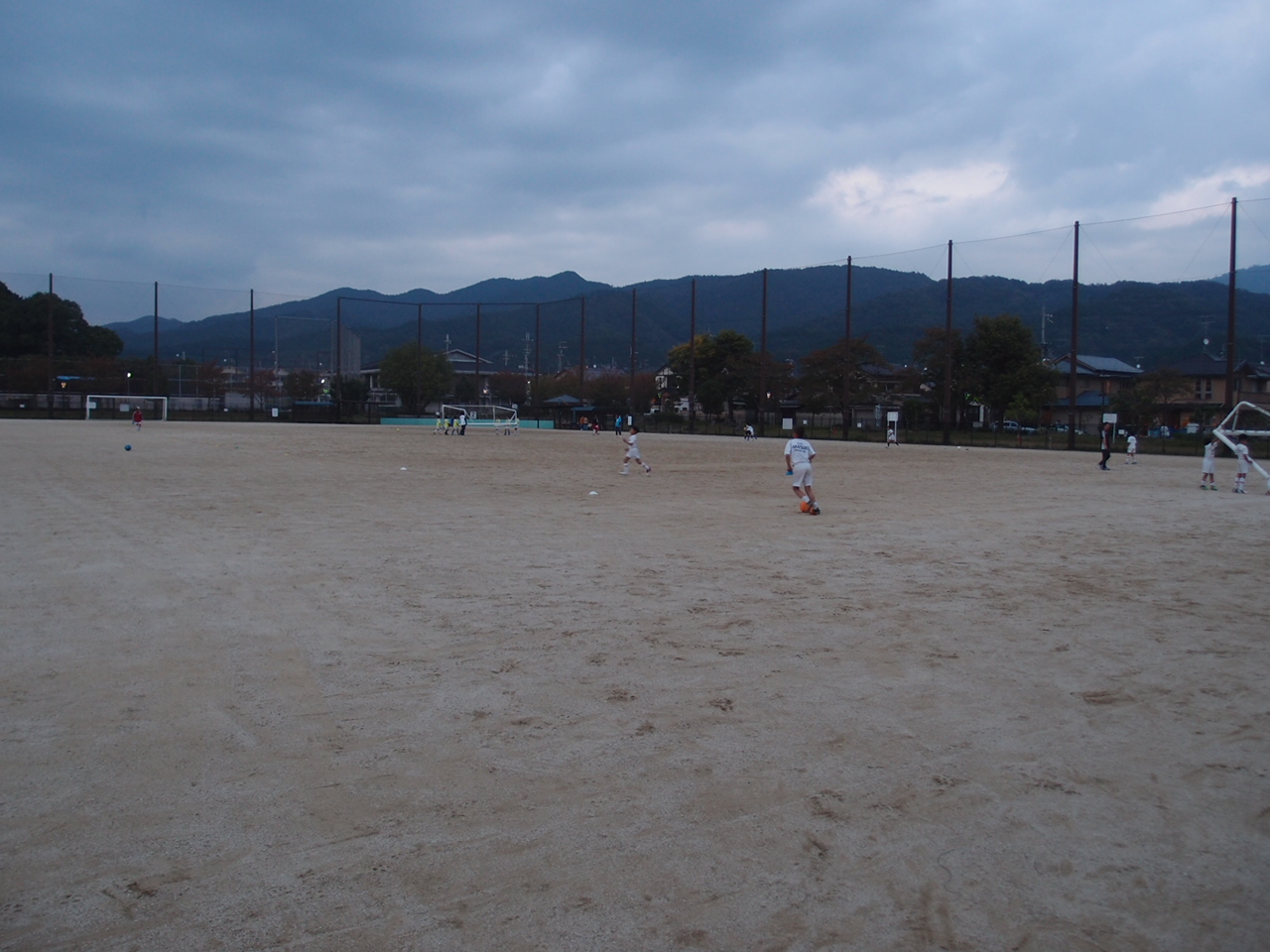 Sakyō-ku, Kyoto, Japan.